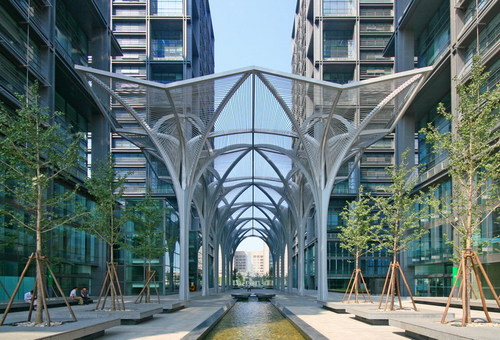 Haidian, Beijing